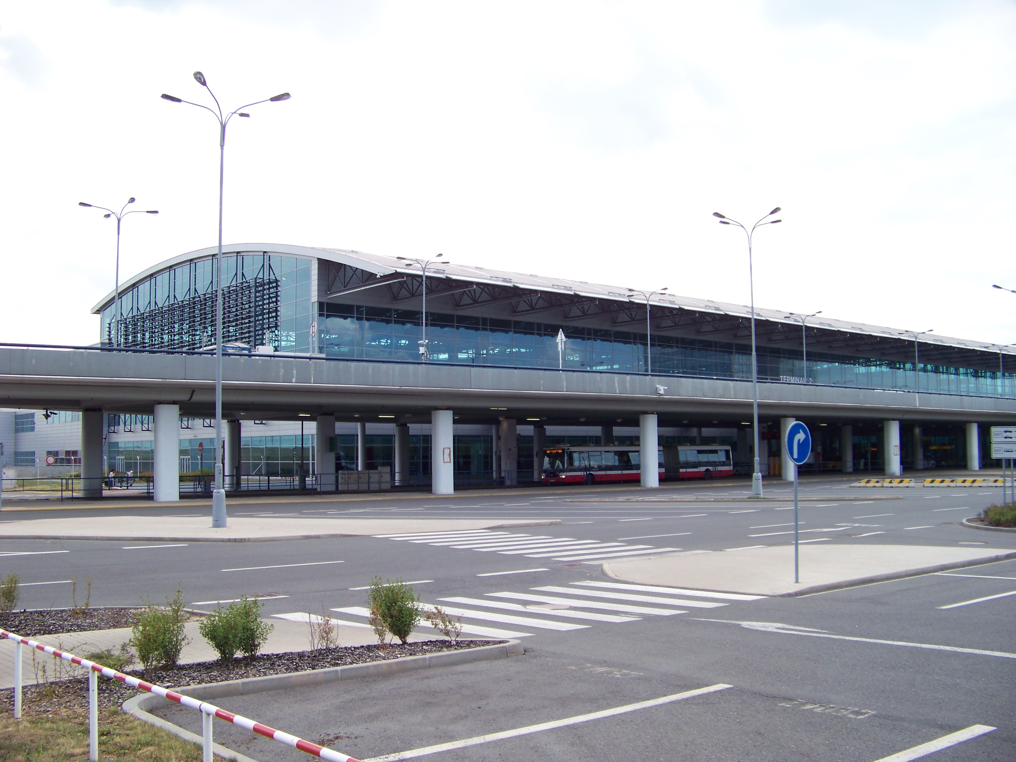 Prague-Ruzyně, the Czech Republic. The Airport, terminal 2. - OpenStreetMap(Info)